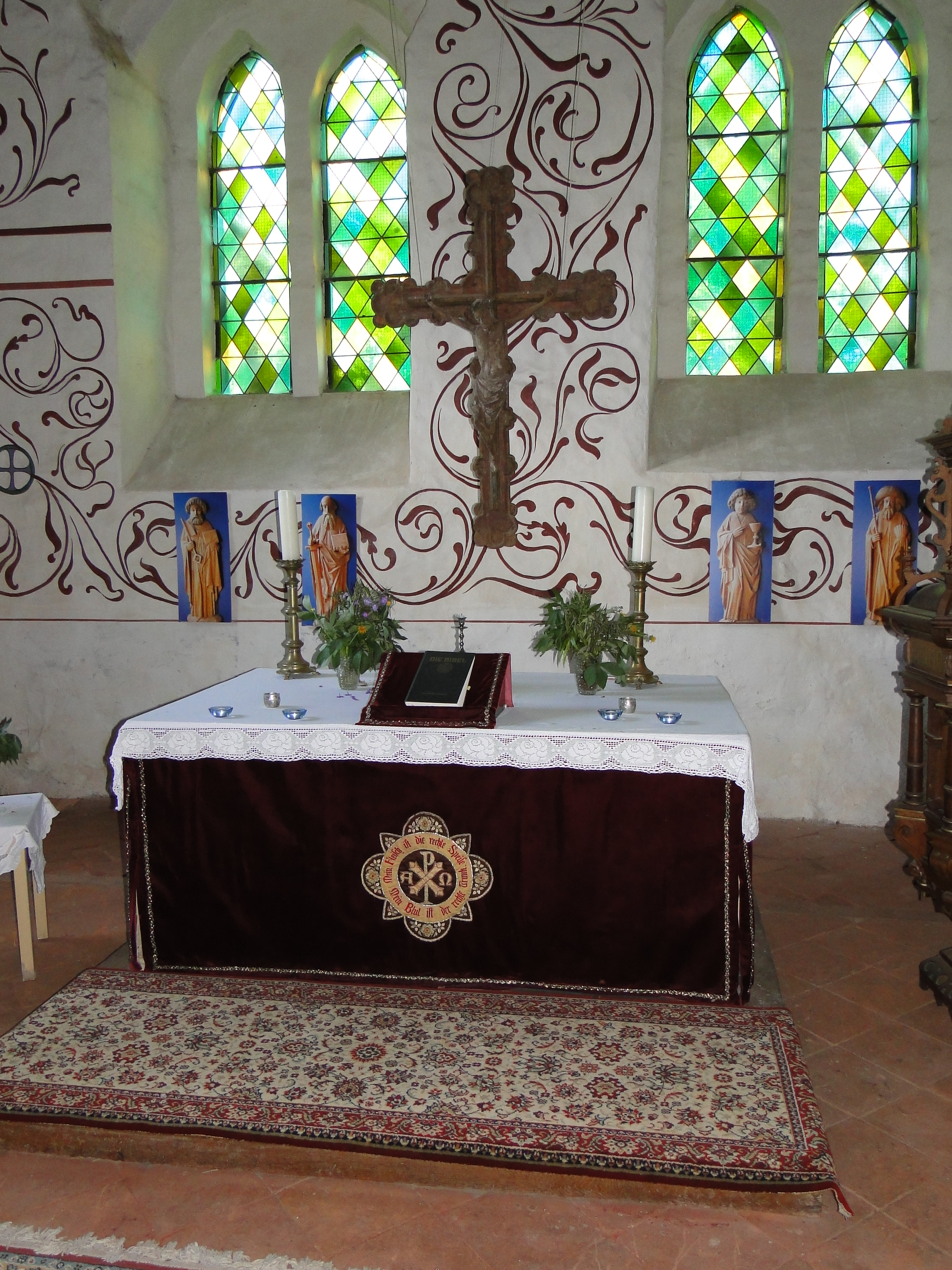 Altar in the church in Below, district Ludwigslust-Parchim, Mecklenburg-Vorpommern, Germany